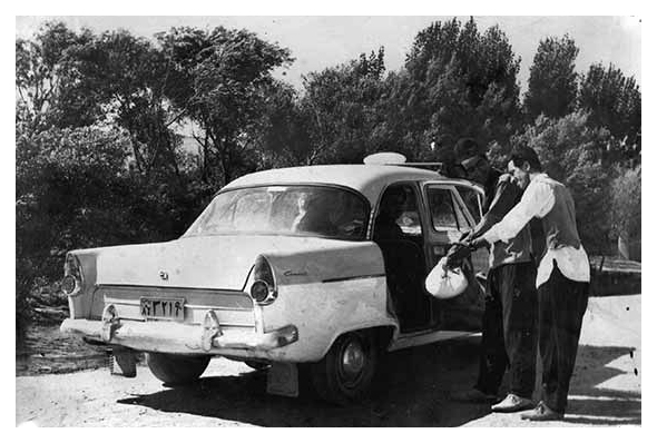 First taxi in Borujerd, Iran.